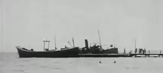 Prisoner-of-war camp in Nargen island